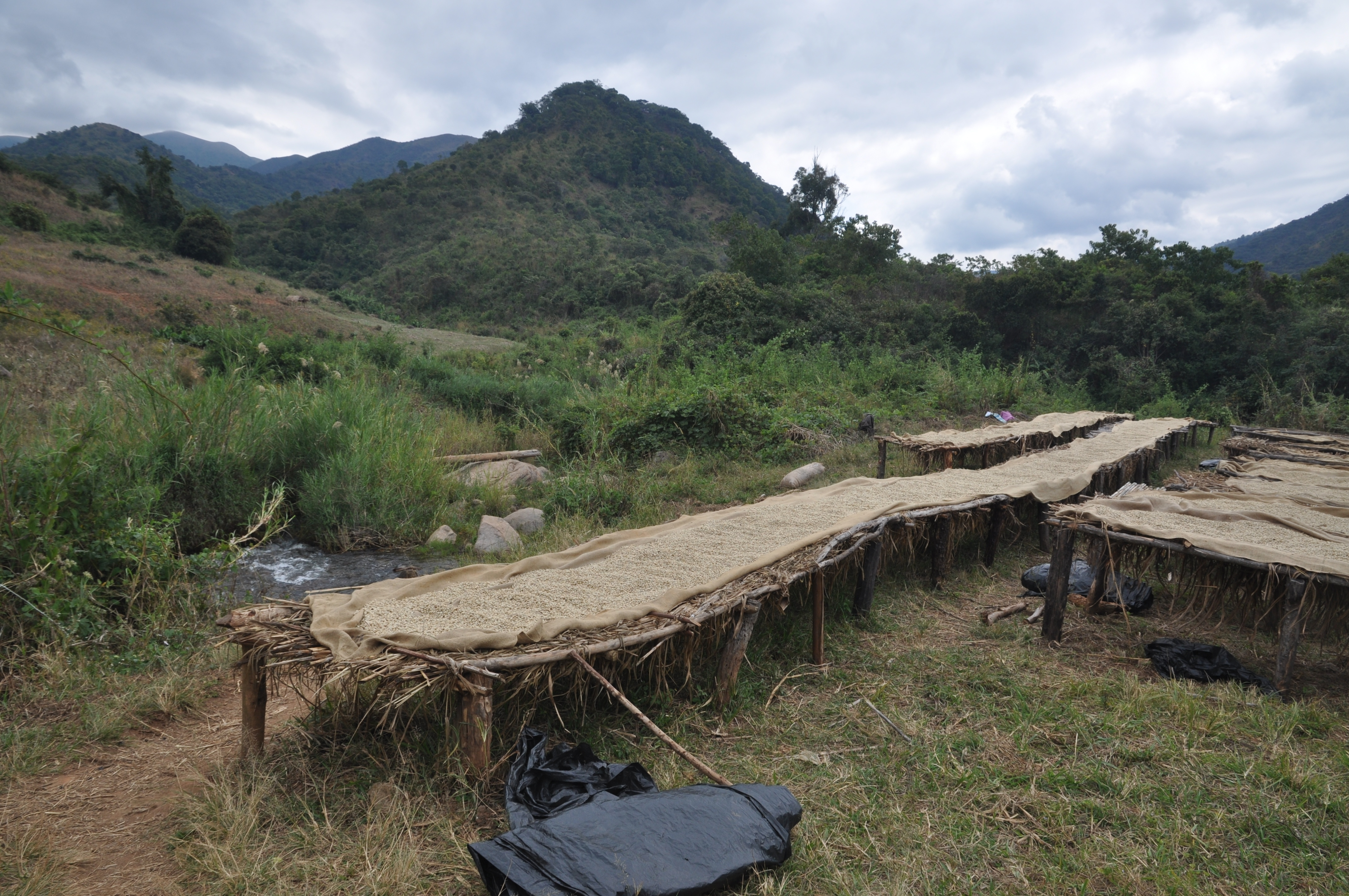 Coffee is dried after the bean has been separated from the coffee cherry This is an image of food from Malawi